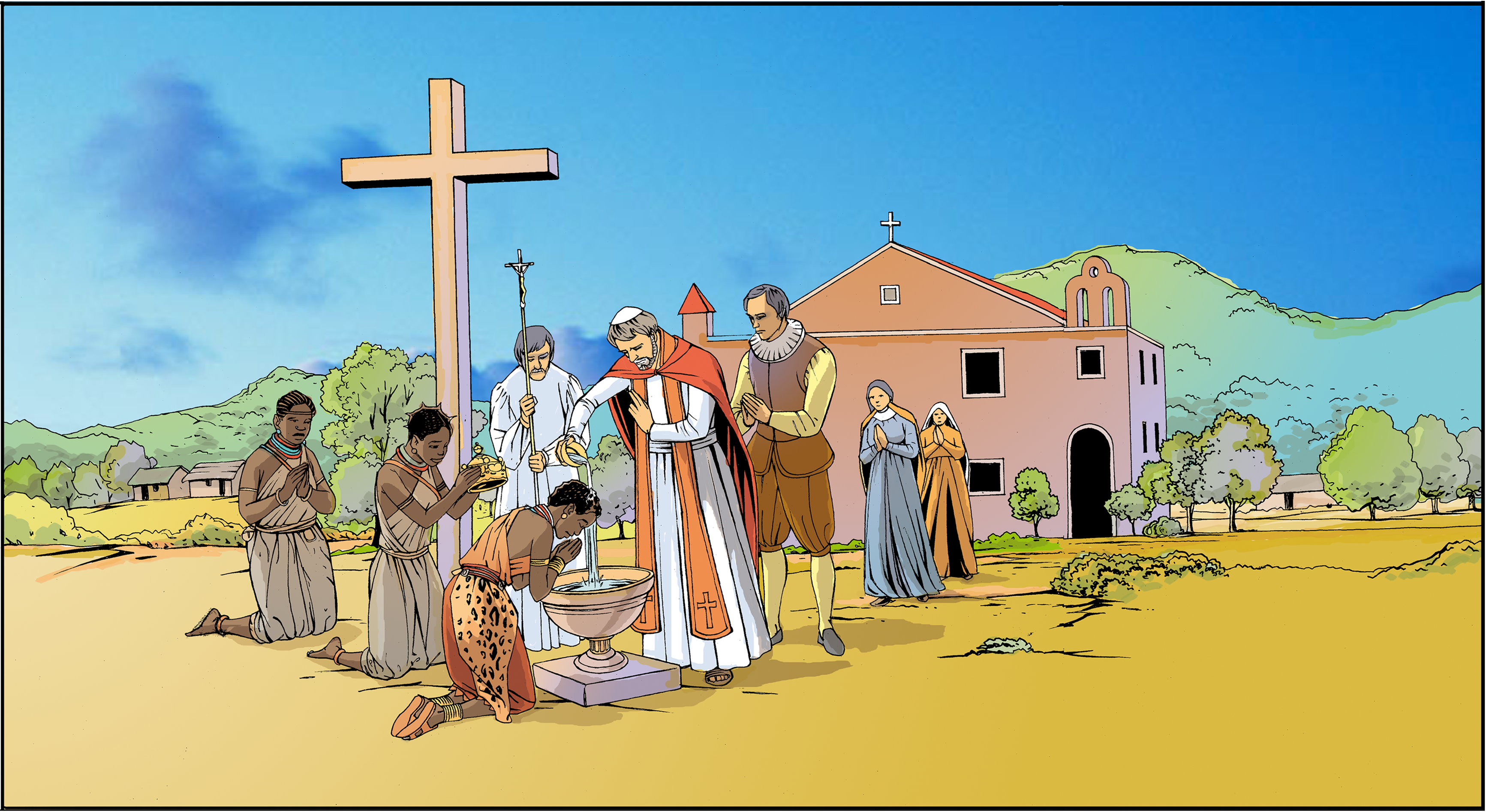 Taken from Nzinga Mbandi: Queen of Ndongo and Matamba from the UNESCO series on women in African history. Illustrations by Pat Masioni